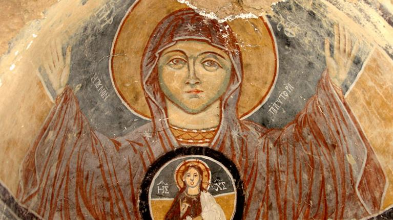 Fresco in St. Athanasius Church in Zovik, Macedonia